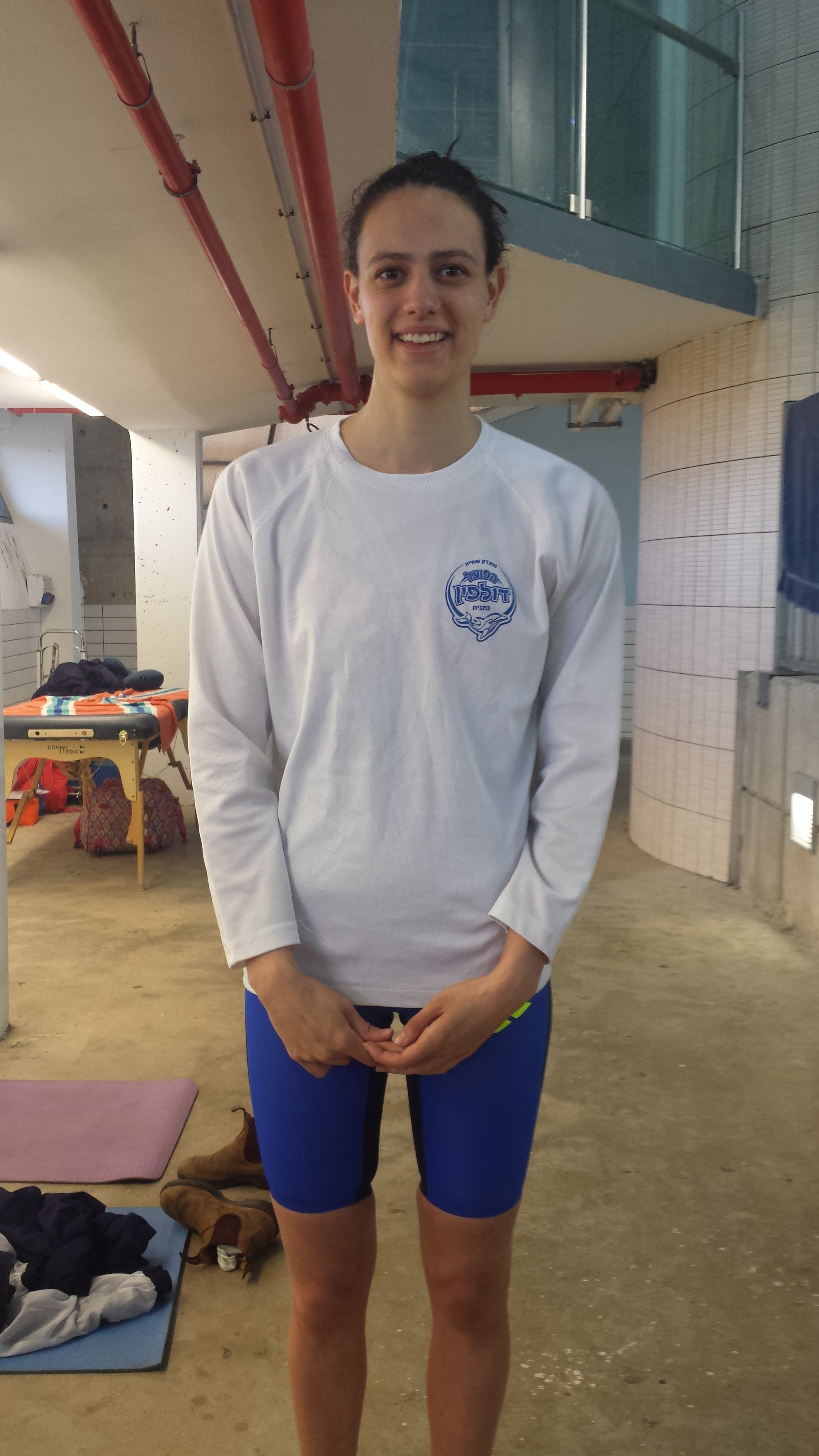 Zohar Shikle, After setting the Olympic criterion, April 2016